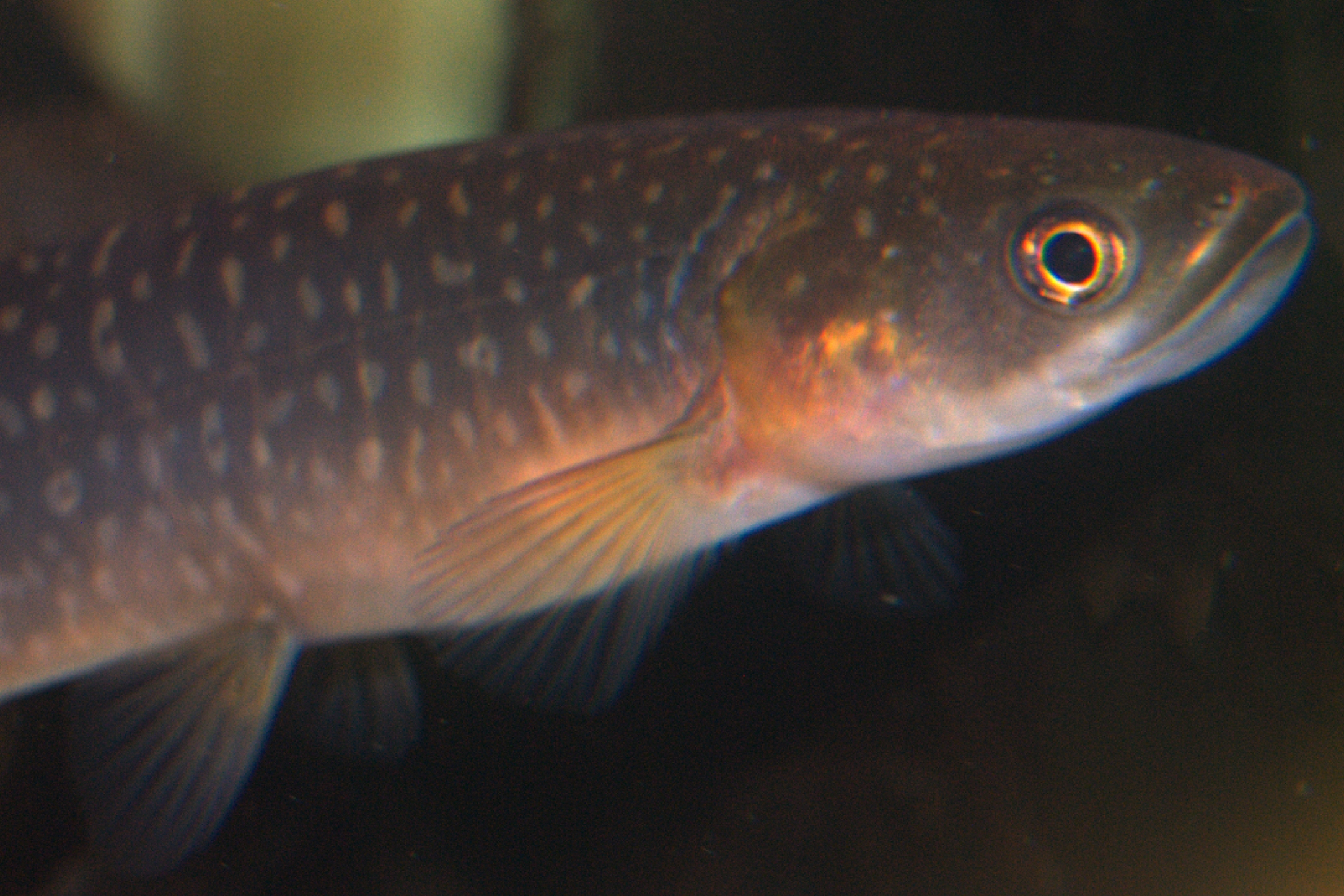 Giant Kokopu, Galaxias argenteus